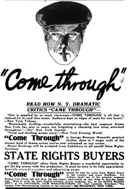 Advertisement for the American crime drama film Come Through (1917) with Herbert Rawlinson, on page 18 of the July 6, 1917 Variety.